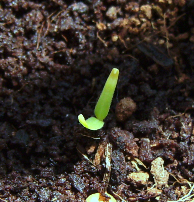 Solanum melongena depressum ("Berenjena de Almagro" cultivar) cotyledons, Barcelona Catalonia